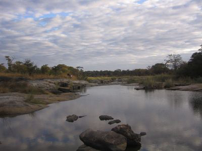 River Kalomo near Namwianga southern province in Zambia